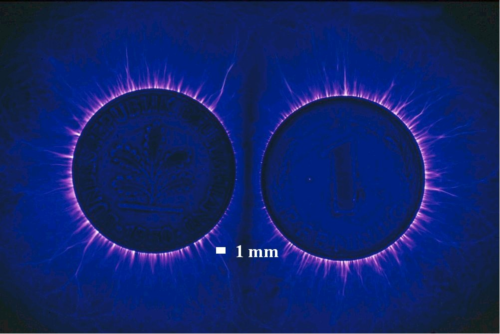 Kirlian photograph of two german one pfennig coins. Own, self-constructed Kirlian camera. Transparent electrode, recorded on slide film.